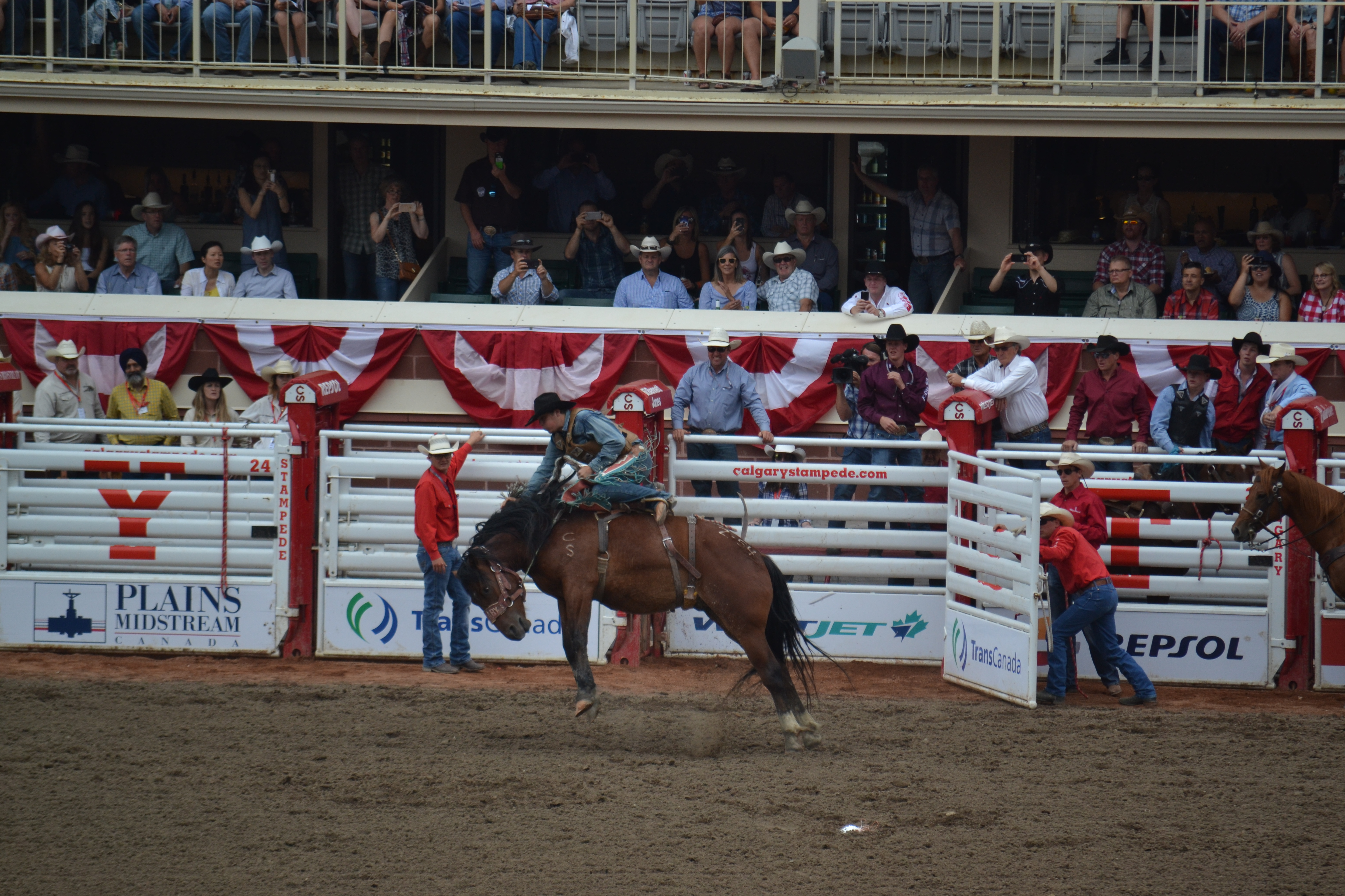 2017 Calgary Stampede - Day Nine (14)